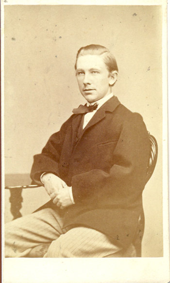 Swedish professor Aron Alexandersson (1841-1930). Original photo owned by Släktgården Backegården, Karlstorp, Sweden.